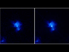 These images from NASA's Chandra X-ray Observatory show the pulsar in Kes 75 in October 2000 (left) and June 2006 (right). The pulsar clearly brightened in X-rays after giving off powerful outbursts earlier in 2006.